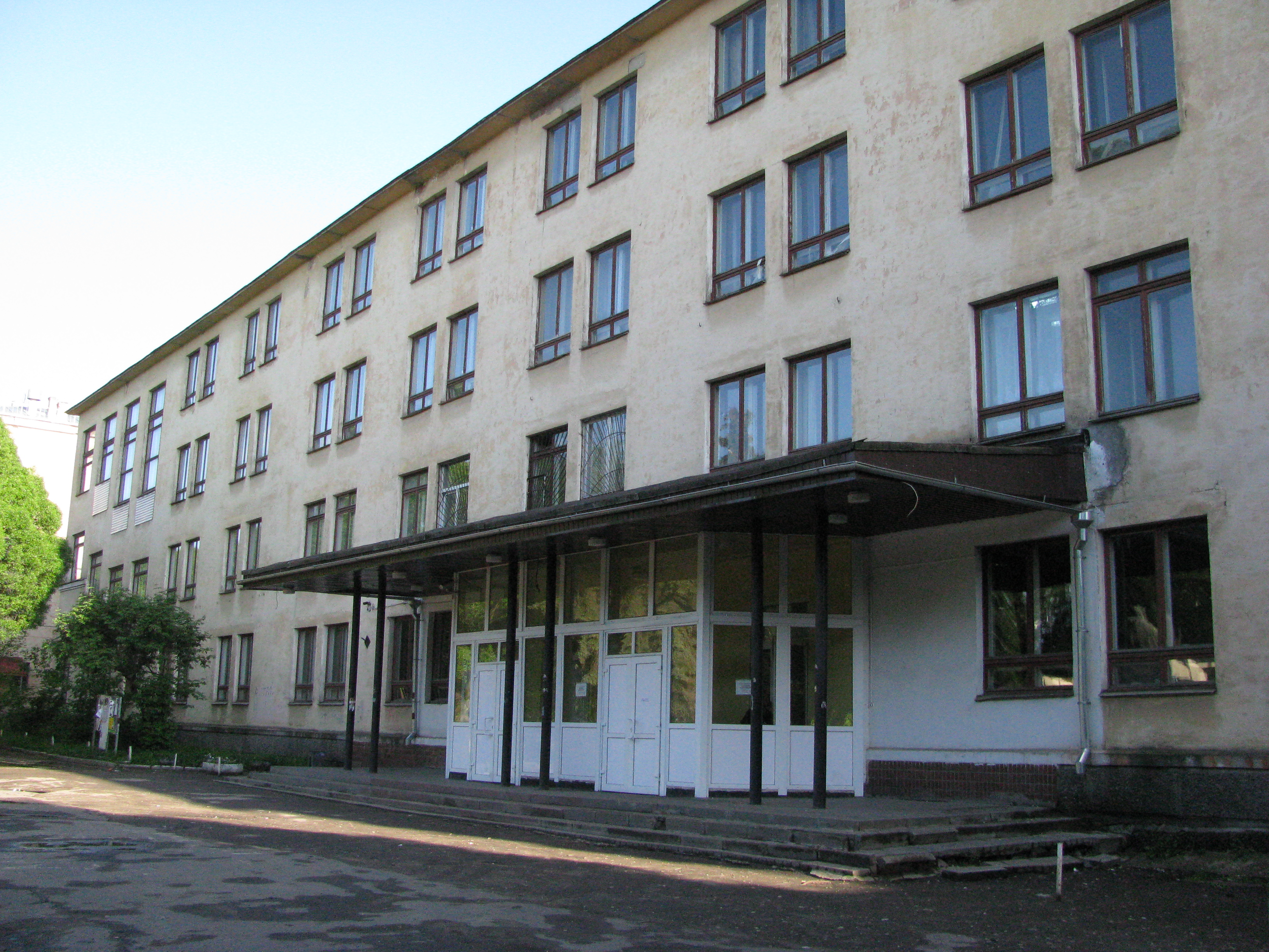 Vologda STU building at Prospekt Pobedy, 37 in Vologda